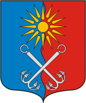 Otradnoe (Leningrad oblast), coat of arms